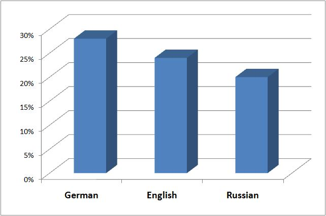 The most commonly known foreign languages in the Czech Republic in 2005. According to Eurostat